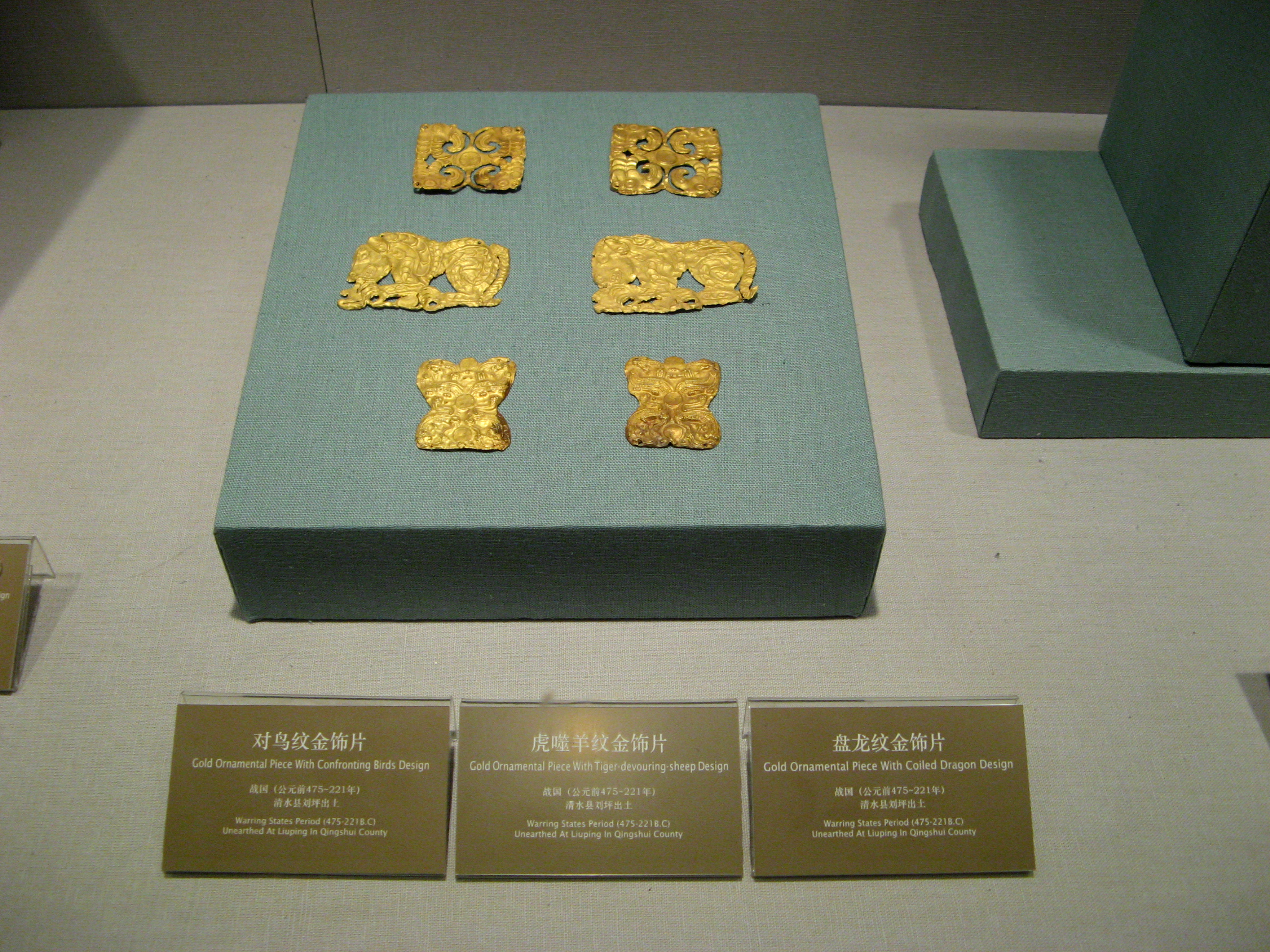 Tiger Eating A Sheep. Warring States period, 475 - 221 BC. Gansu Provincial Museum This small gold repousse plaque is one of several, having various designs, from Liuping in Qingshui County.